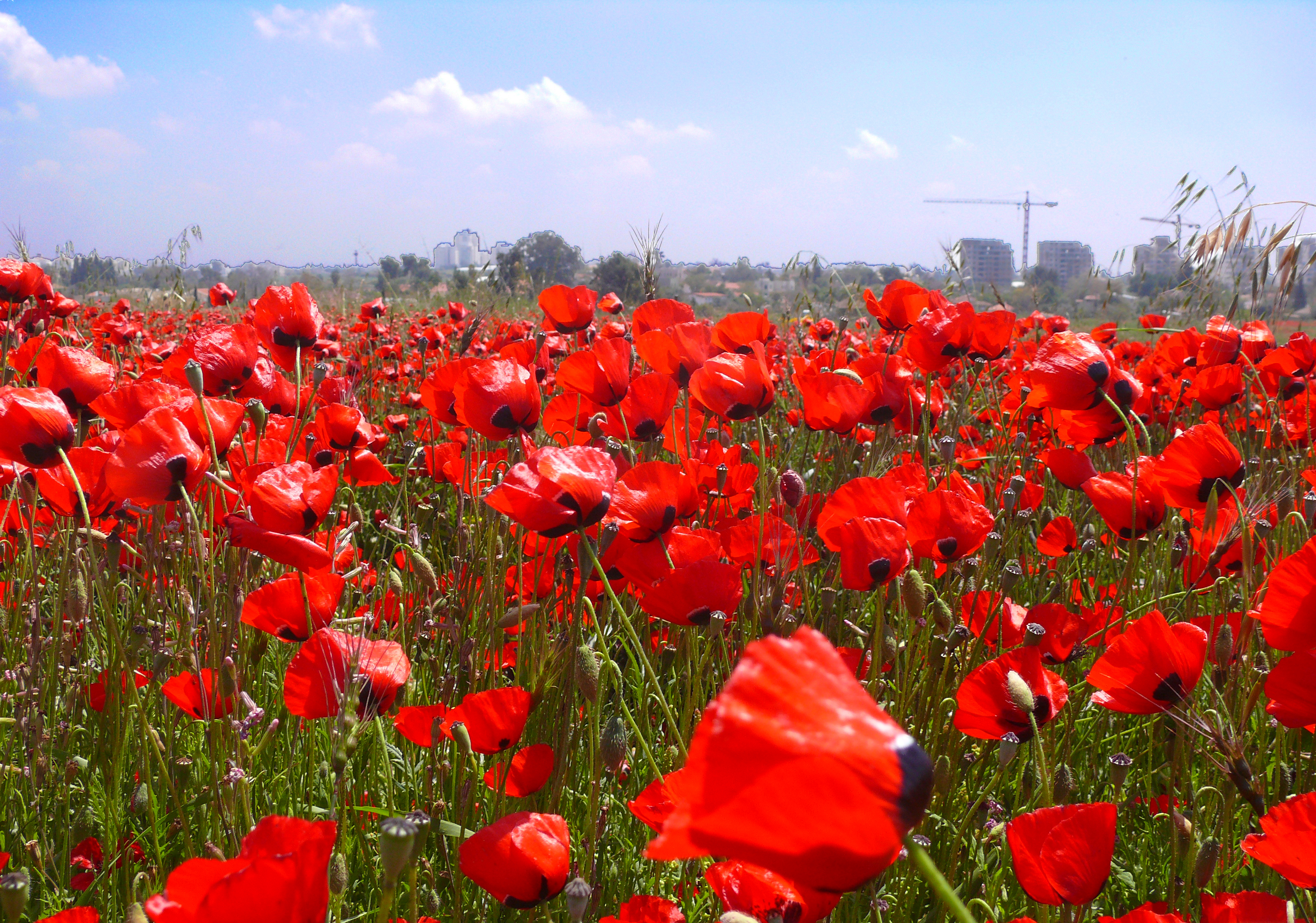 Papaver umbonatum, Israel